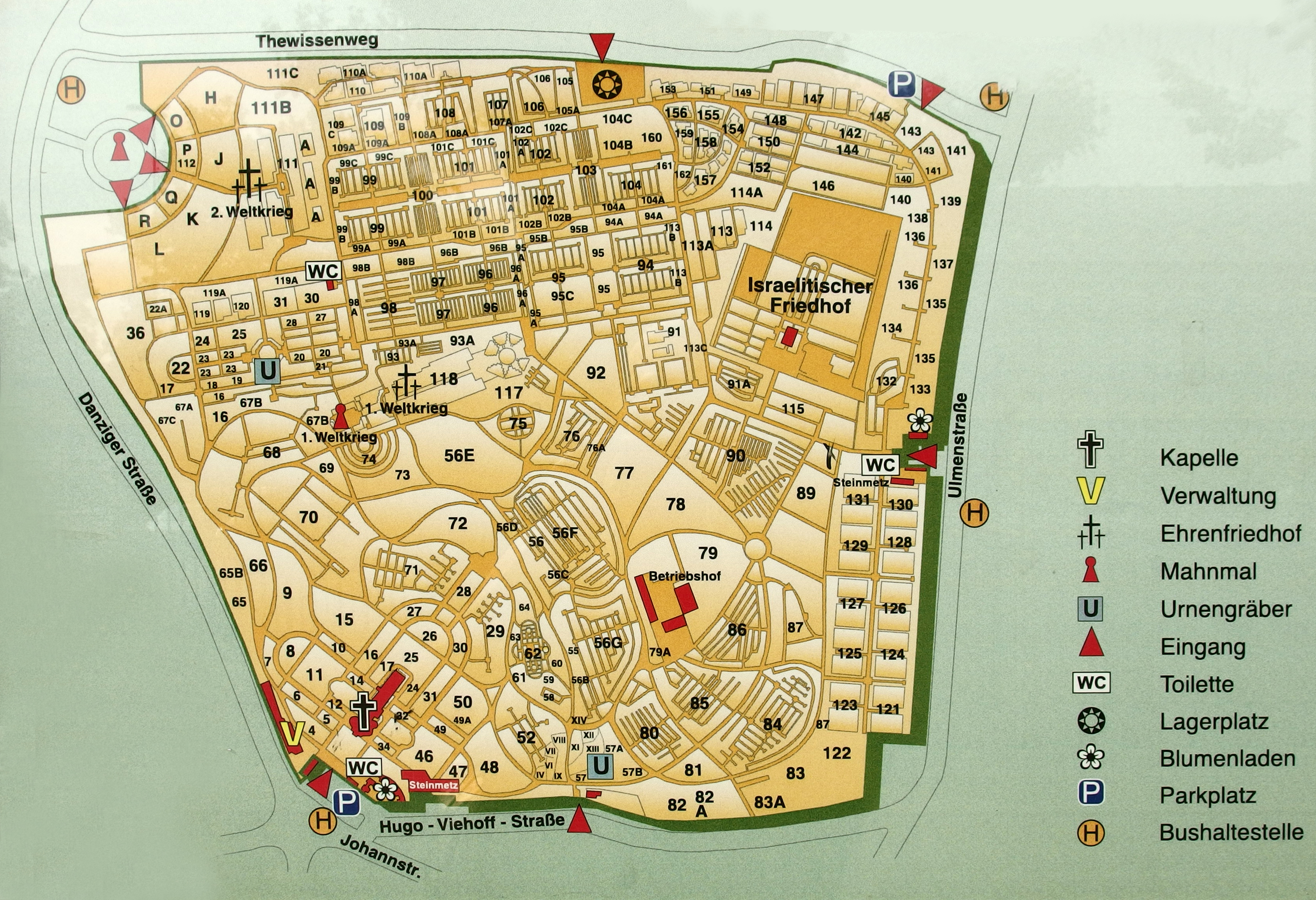 Map of the cemetery Nordfriedhof in Düsseldorf